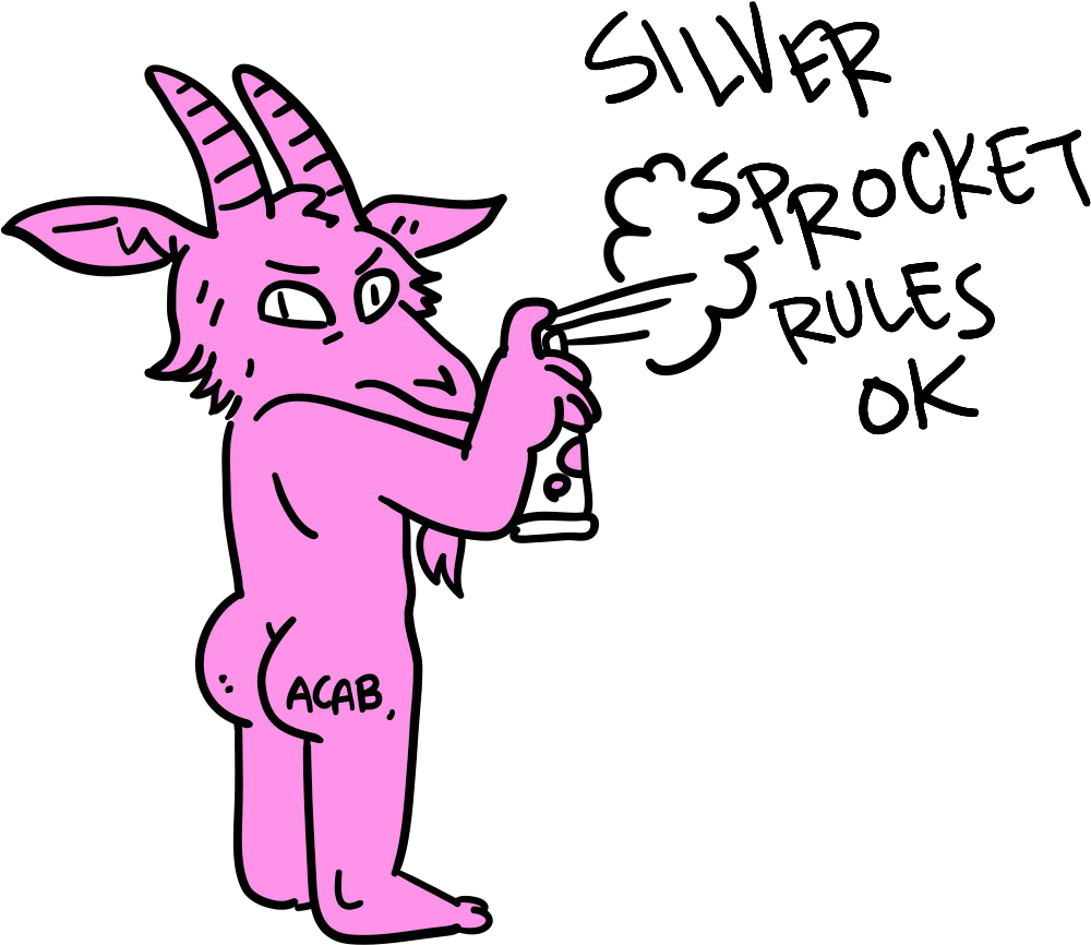 Silver Sprocket Bicycle Club logo drawn by Liz Suburbia